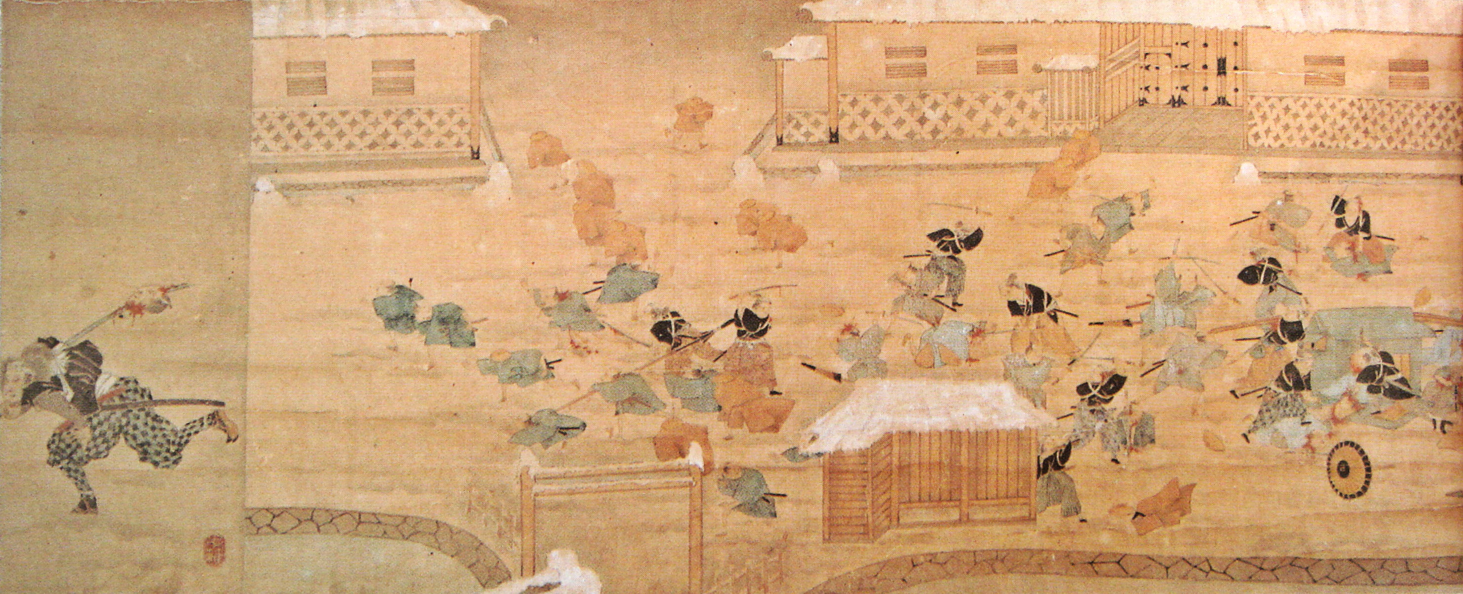 Sakuradamon_incident_1860_silk